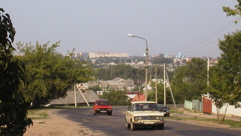 A view of Borisov (Barysaw, Belarus) from an area near the river.